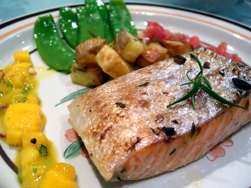 As much as I like salmon, I always find it just a bit fatty after having it. I tried to balance it with a mango salsa, which did help a bit. I didn't get a chance to take photos of Julia's pumpkin soup, and the Wasabi Prawn Mousse Filo and Vegetarian Ham Filo rolls! Julia's Rosemary Potatoes are always a hit, a recipe we learnt from Isabel. - [/photos/avlxyz/297986190/ Thyme and Garlic Grilled Salmon with Mango Salsa, Rosemary Potatoes and Snow Peas] - [/photos/avlxyz/297986261/ Aunt Shirley's fruit platter and Black Sesame Dessert] - [/photos/avlxyz/297986301/ Aunt Shirley's Longan and Goji Berry Agar Jelly]